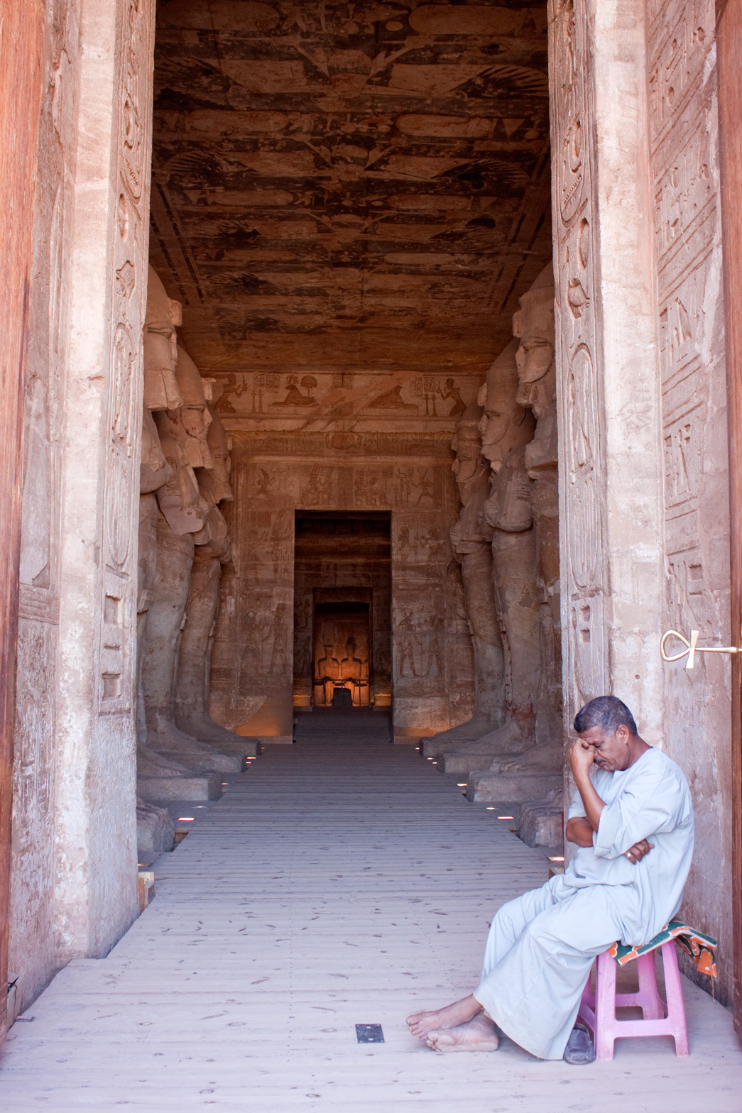 Inside the larger temple